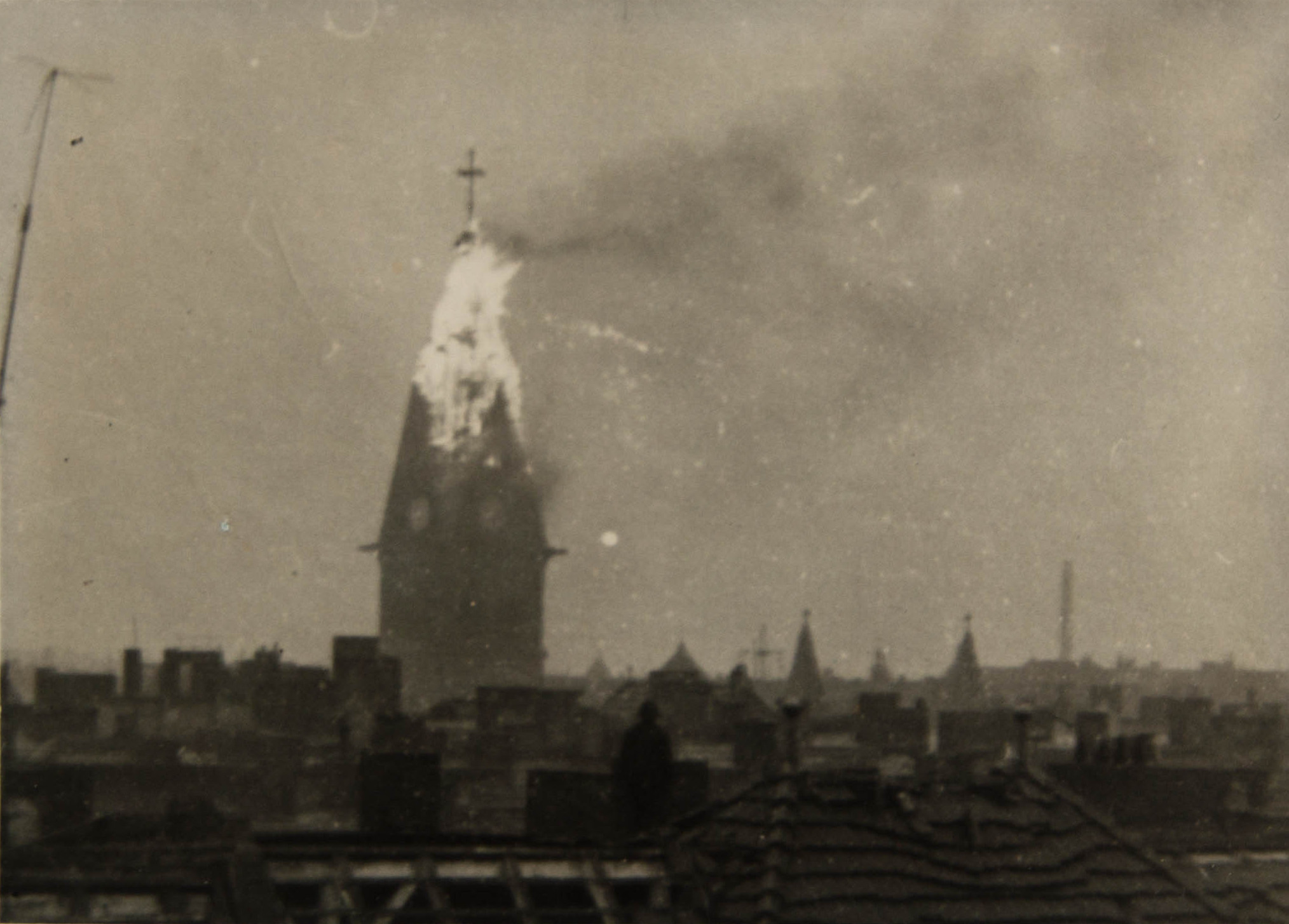 Brennende Kapernaumkirche, Wedding im Zweiten Weltkrieg